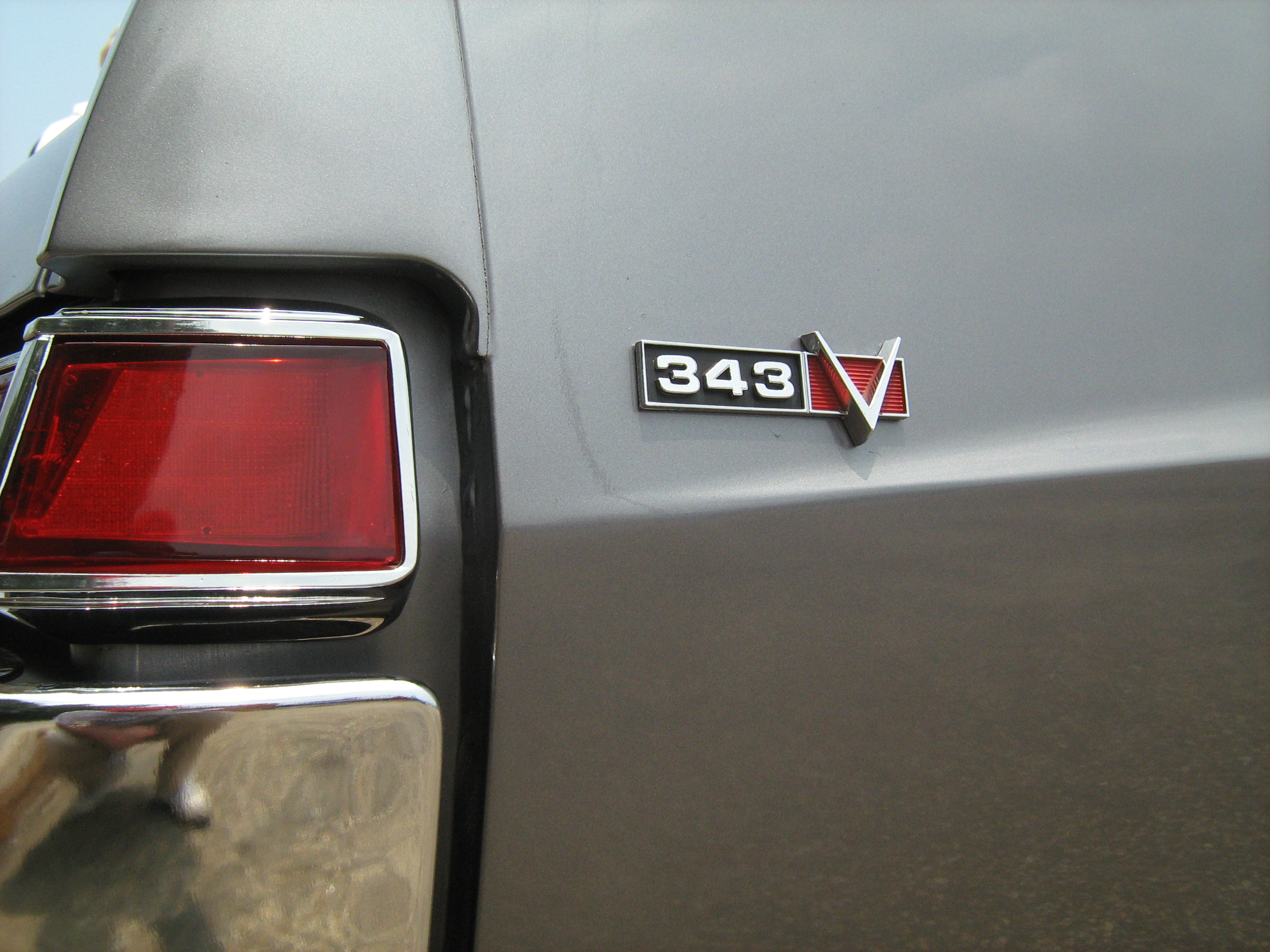 The V 343 emblem on the rear fender of a 1969 AMX, a two-seat GT sport coupe made by American Motors Corporation (AMC). This "muscle car" has the 343 "Go Package" that included the 343 cu in (5.6 L) high-compression 4-bbl V8 280 hp (209 kW; 284 PS) V8 engine, racing stripes, power front disk brakes, Twin-Grip rear differential, Magnum 500 wheels with trim ring, E70x14 red-stripe performance tires, and other high-performance components. This car is finished in "Castilian Gray" metallic (paint code P63) and red "Go Pac" stripes. Photograph taken at the Potomac Ramblers automobile club's 2011 "All AMC Drag Race Day" held at the Capitol Raceway, a NHRA sanctioned, 1/4 mile, asphalt and concrete, drag strip located in Crofton, Maryland.